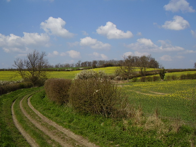 Towards Loveden Hill from the green lane